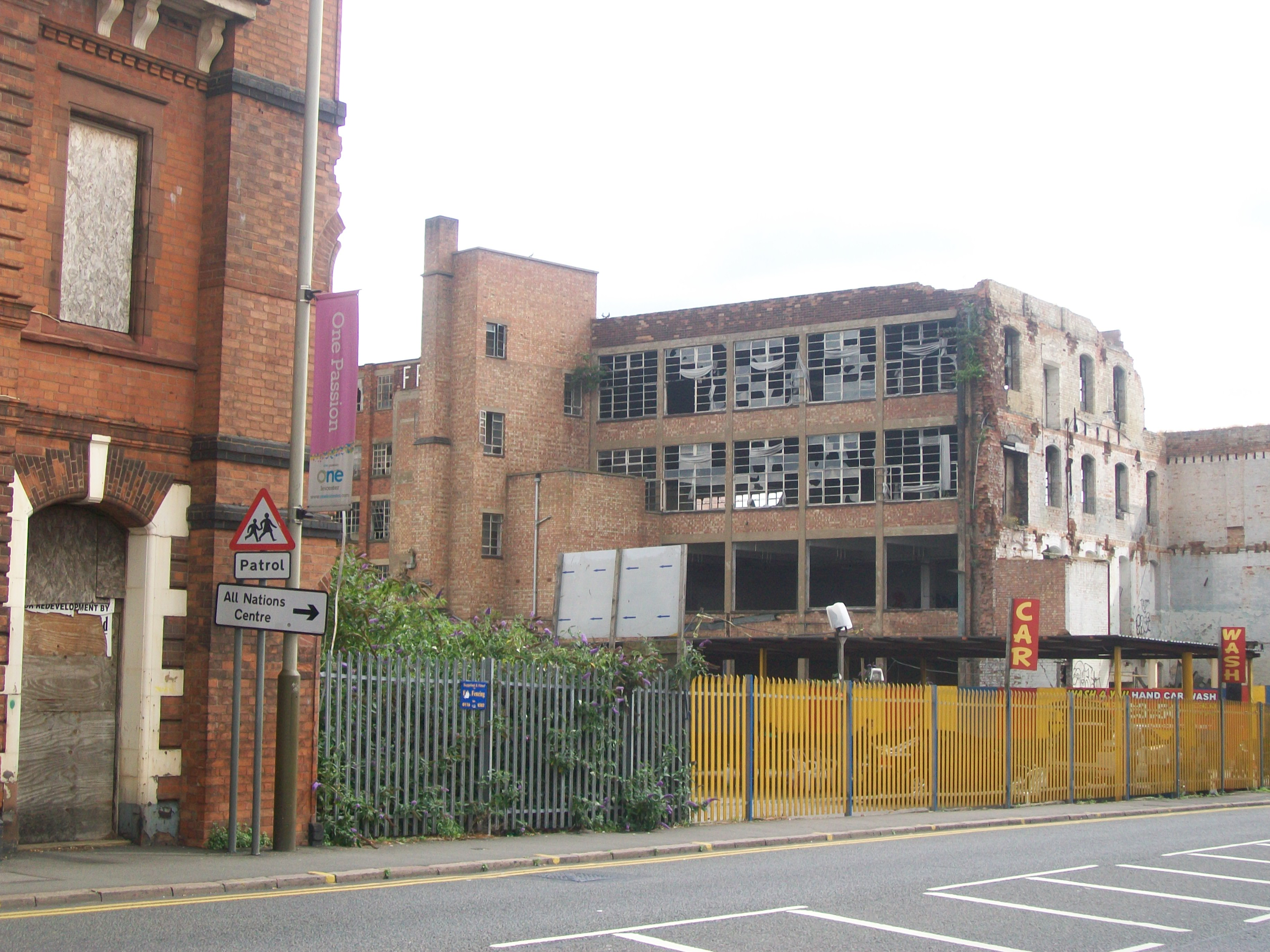 The site of the former Frisby-Jarvis building in Leicester, UK. The building was destroyed by fire in 2005. Photo taken August 2012.